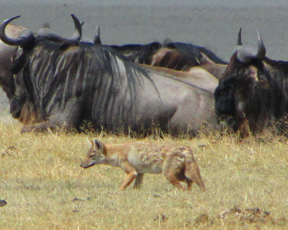 Golden wolf (Canis anthus bea) weaving through herd of Western White-bearded Wildebeest (Connochaetes taurinus mearnsi), Ngorongoro National Park, Tanzania